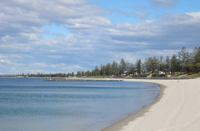 Monterey Beach, Monterey, New South Wales